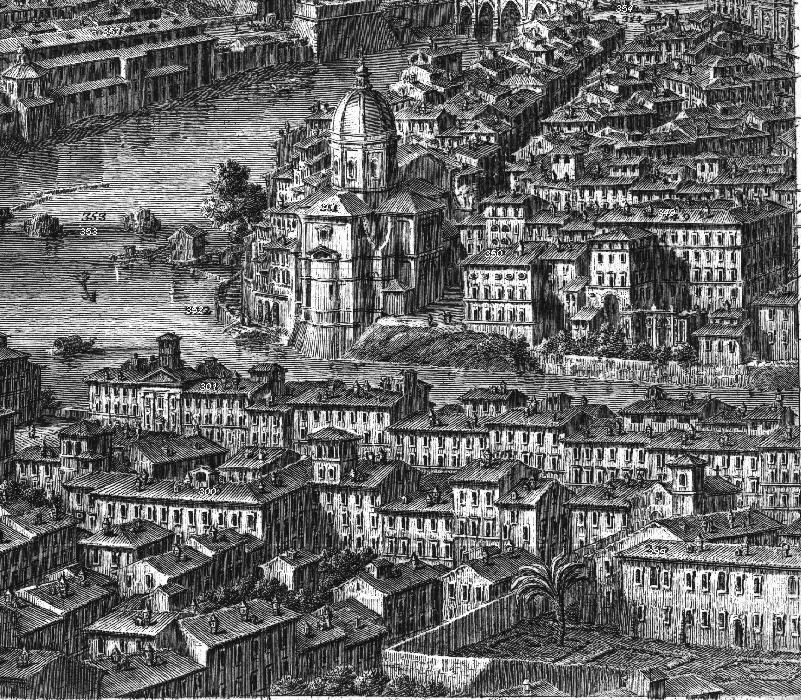 S. Giovanni dei Fiorentini (D4) - Grand View of Rome - Giuseppe Vasi